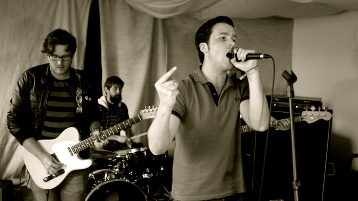 This screenshot was taken by Andrew Little during the filming of a promotional video. The video is for the track '43 Degrees' by the band Skint & Demoralised. I am the primary member of Skint & Demoralised and therefore I own the full copyright to the promotional video, including this screenshot. The copyright on this image belongs to me, and was sent directly over by Andrew Little.